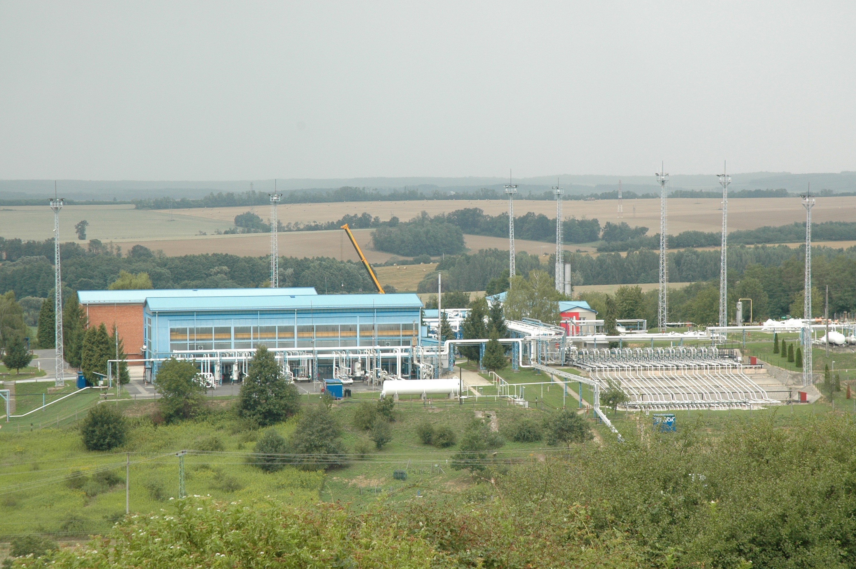 E.ON underground gas storage station in Pusztaederics (Zala County, Hungary)